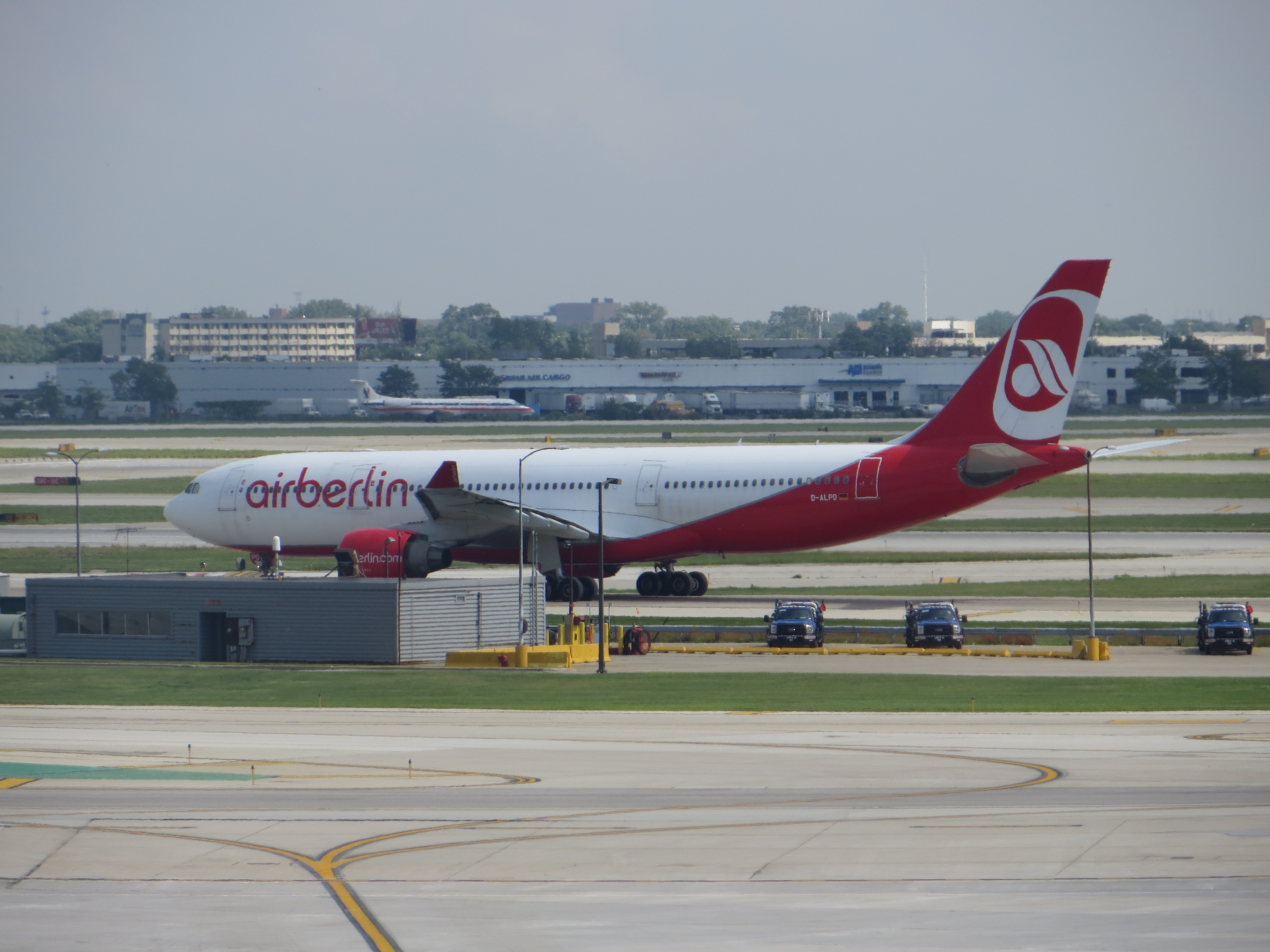 An Air Berlin A330 at Chicago O'Hare.